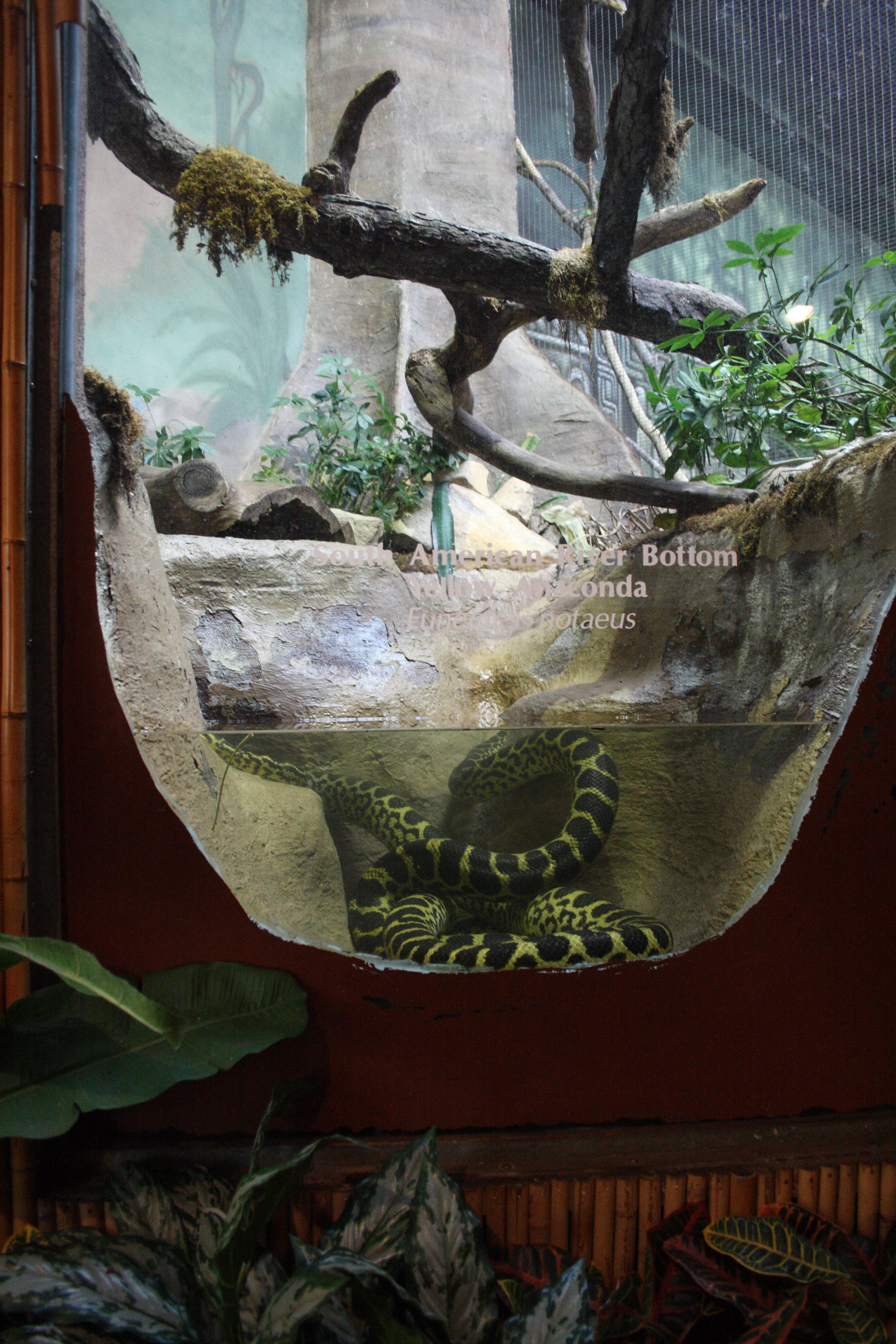 A Yellow Anaconda (Eunectes notaeus) at Beardsley Zoo